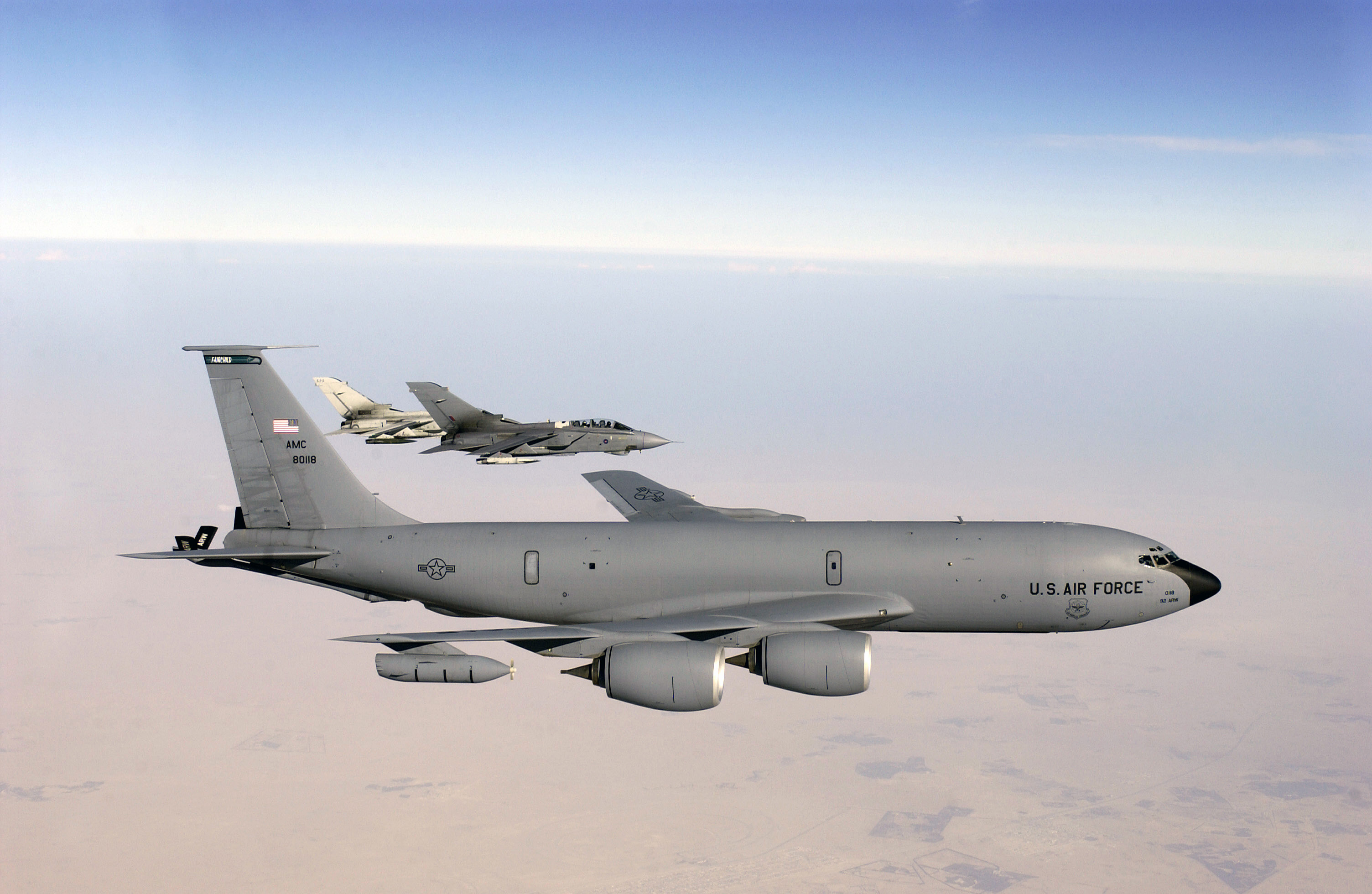 A US Air Force (USAF) KC-135R Stratotanker, 92nd Air Refueling Wing (ARW), Fairchild Air Force Base (AFB), Washington (WA), 379th Expeditionary Air Refueling Squadron (EARS), left flanked by two Royal Air Force (RAF) GR4 Tornadoes, No. 617th Squadron, RAF Lossiemouth, United Kingdom (UK), during Operation IRAQI FREEDOM.